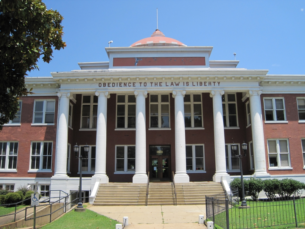 Marion, Arkansas. Courthouse.